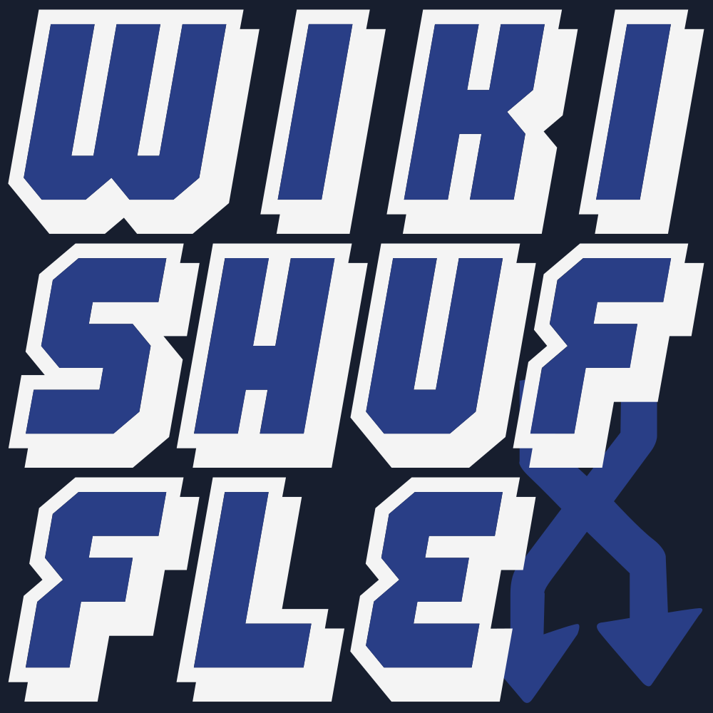 Wikishuffle Podcast Logo January 2016